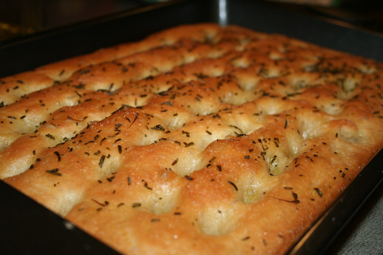 A rare bout of baking, with yeast, even--focaccia with rosemary from the garden.